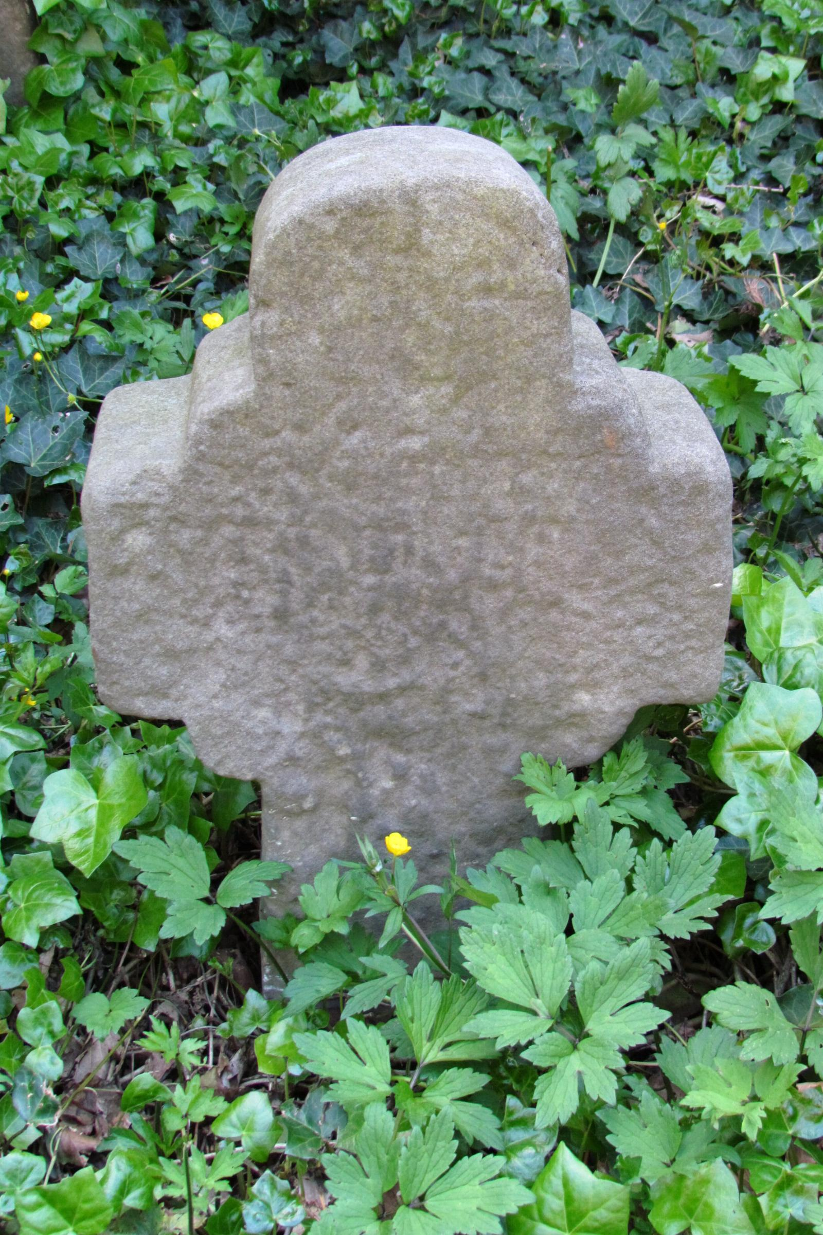 This is a photograph of an architectural monument.It is on the list of cultural monuments of Korschenbroich